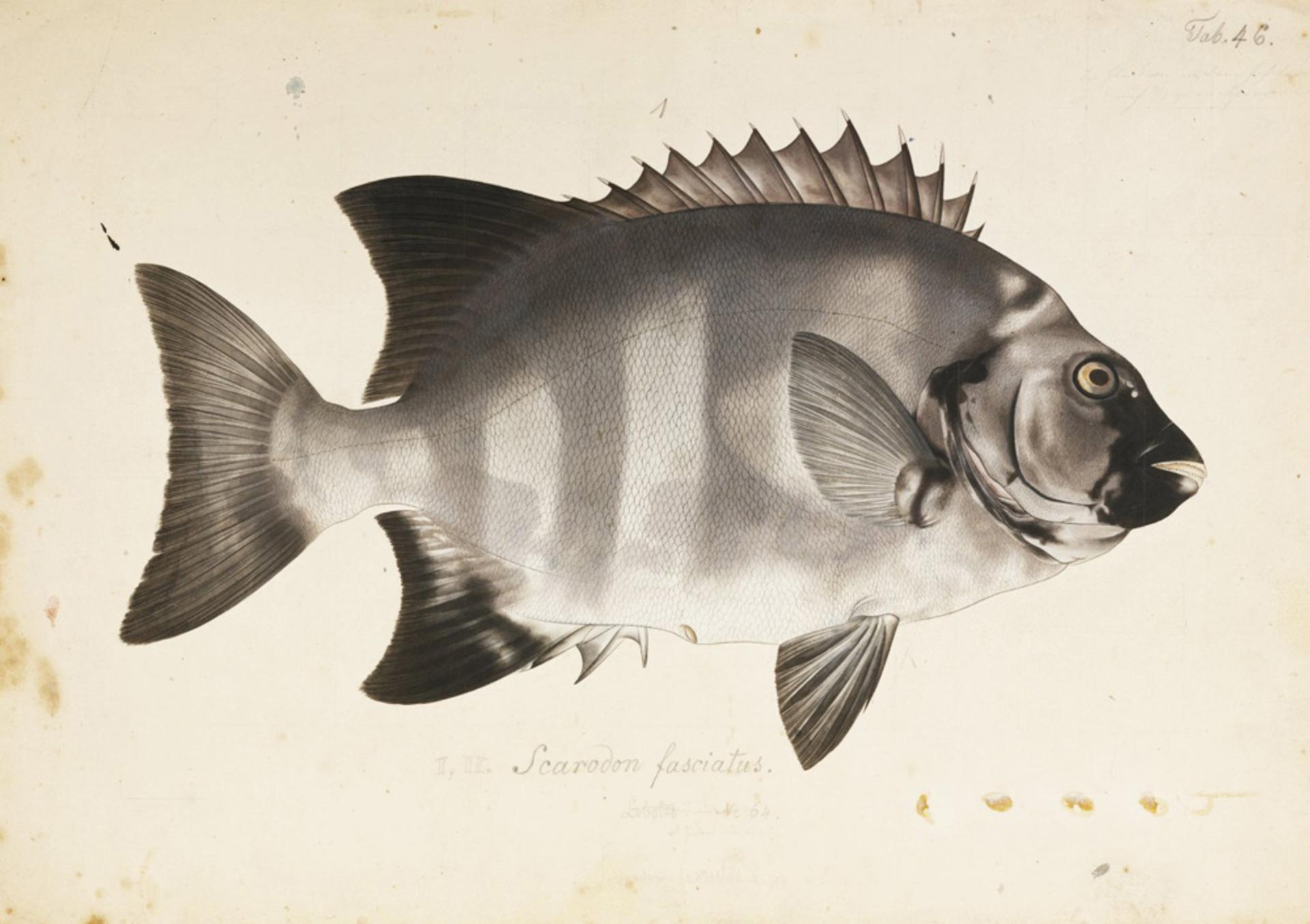 Oplegnathus fasciatus (Temminck and Schlegel)